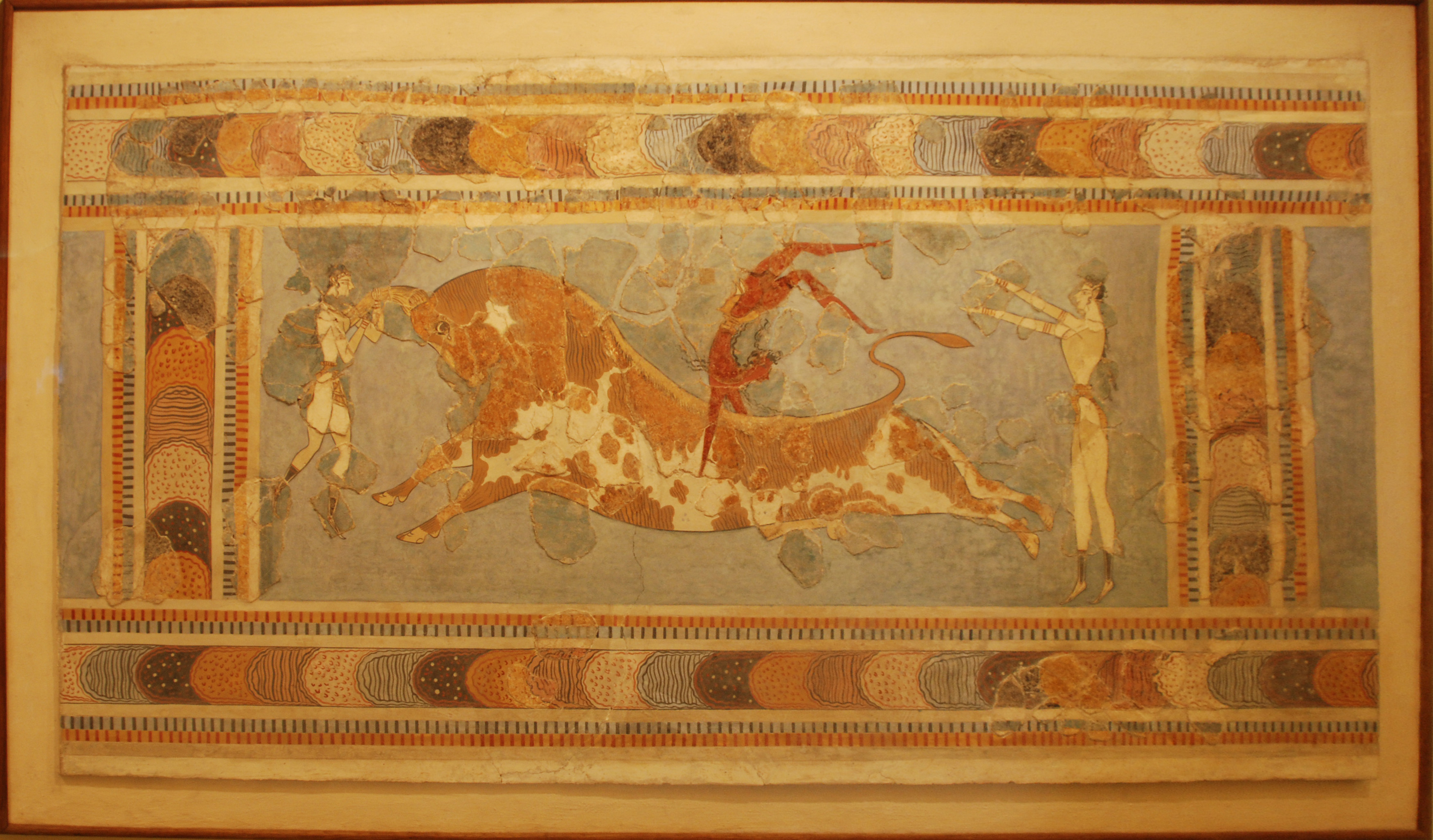 Bull leaping" fresco (painted plaster) from a wall of the Palace at Knossos. The red figure is probably male (its hands probably not on the back of the bull as it should, maybe so to reduce the height of the image), the white figures female (a color convention in Minoan painting). 17th-15th centuries BC. Origin: Palace of Knossos. Height of restored fresco 78.2 cm. MM III-LM IB period. Heraklion Museum Inv. no. T 15. Cf. A. Evans, The Palace of Minos at Knossos, vol. III, pp. 209-214.